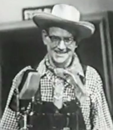 Red Ingle performing his 1947 hit "Tim-Tay-Shun" on Ford Startime. This is a screenshot of this segment of the show. The item can be dated from the original television air date. It can also be verified by viewing another clip from the program of Jo Stafford singing "The Gentleman Is a Dope". The television studio and set are the same in both video clips; Stafford performs solo and with Ingle wearing the same gown.Nostalgia With Let-Down Trimming 14 March 1960 Billboard The list of songs performed on The Swingin', Singin' Years includes both "The Gentleman Is a Dope" and "Temptation"; The Stafford/Ingle version was a song parody of this. Stafford and Ingle are also listed in the performers' credits. Since most television shows were under copyright by this time, the assumption is that there was originally a copyright on the television program, and that it would have been effective as of the year 1960. Copyright searches were performed on the following with the following results: The Swingin', Singin' Years--no information Startime--nothing was discovered which would apply to a television series or show. Ford Motor Company--for the year 1988--when any copyright would have been renewed--nothing was discovered which would apply to a television show. National Broadcasting Company-for the year 1988--nothing was discovered which applies to this particular television series or show. There is no evidence of any copyright renewal for this series or program in it.